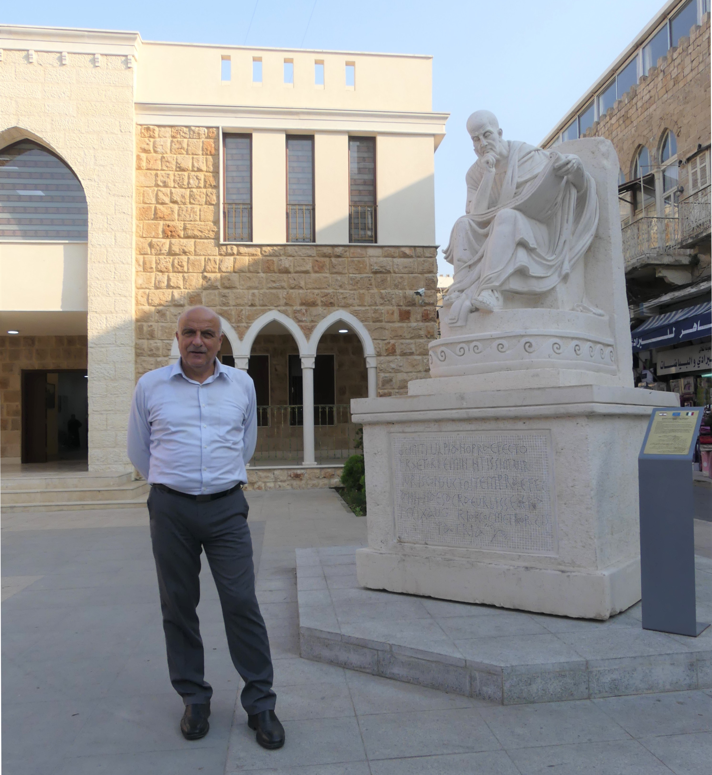 Mayor Hassan Dbouk of the Southern Lebanese city of Tyre/Sour, next to a statue of prominent Tyre-born Roman jurist Ulpian, in front of the municipality building in the Old Town. Dbouk is also the President of the Union of the Municipalities of Tyre.